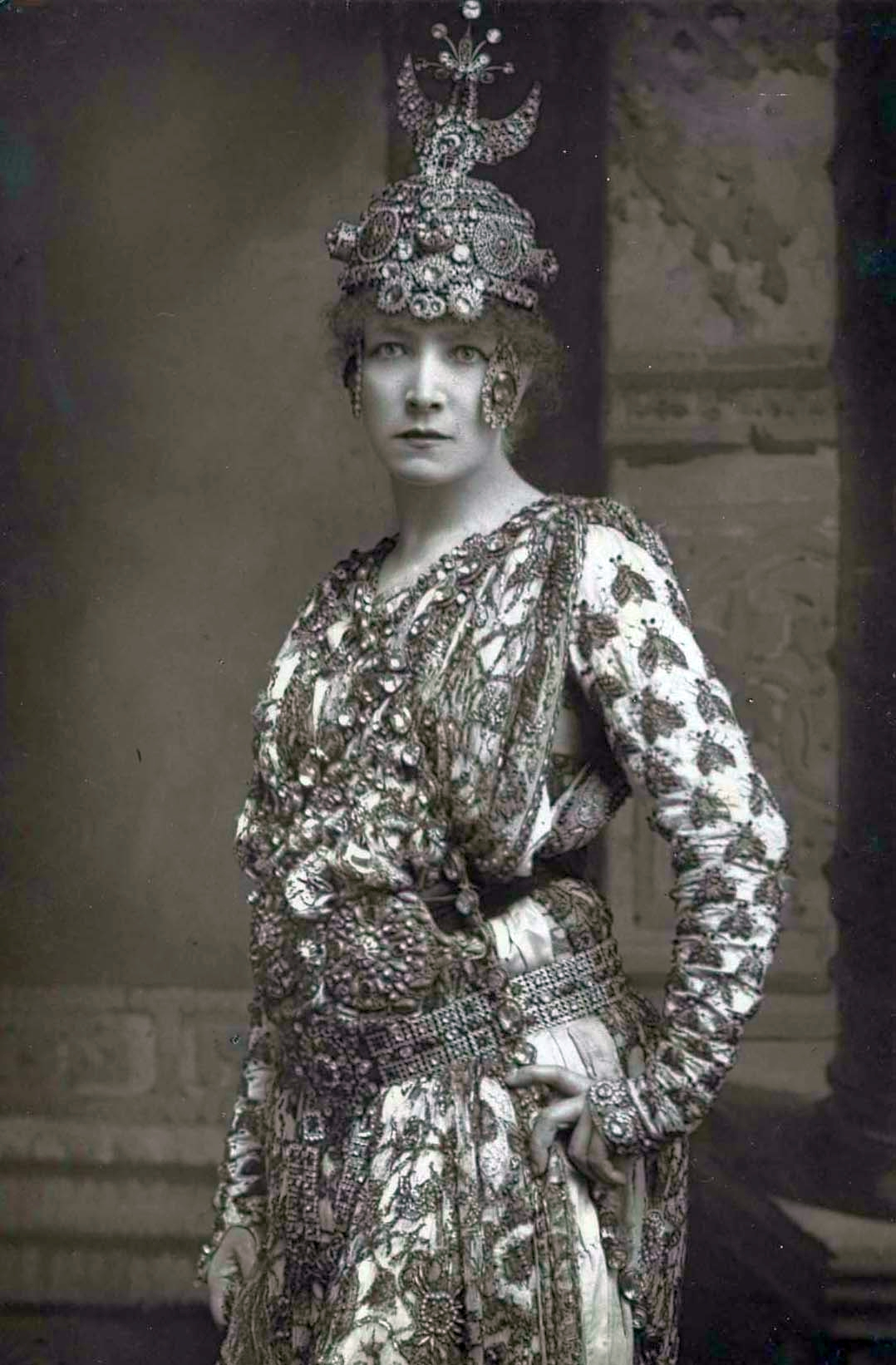 Sarah Bernhardt in character as the Empress Theodora in "Theodora: A Drama in Five Acts and Eight Tableau" (1885) by Victorien Sardou (ISBN: 9781165654871).